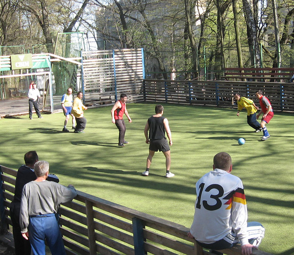 Minisoccer players